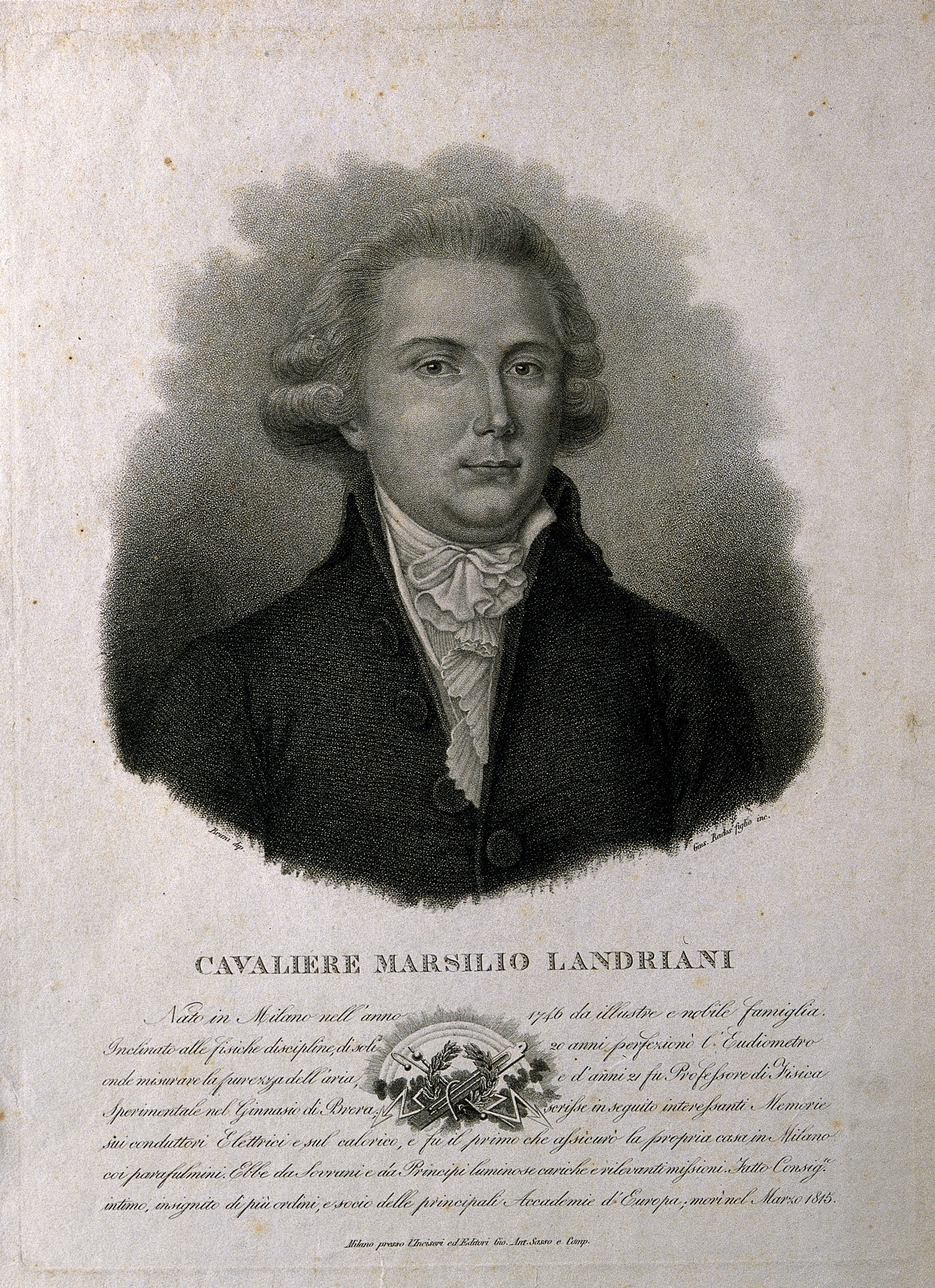 Marsilio Landriani. Stipple engraving by G. Rados, junior, after Bruni. Iconographic Collections Keywords: portrait prints; Marsilio Landriani; Giuseppe Rados; stipple prints; Bruni